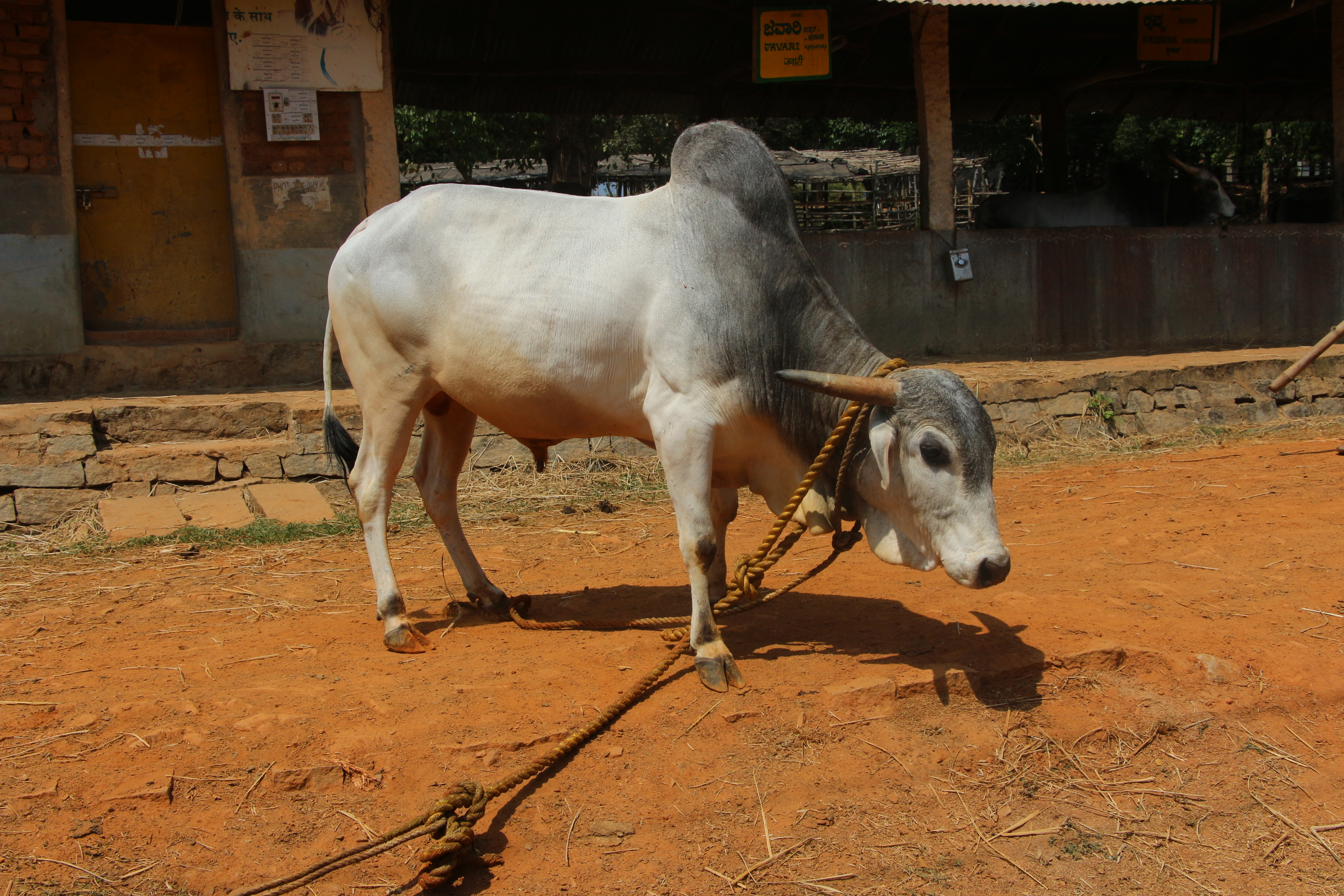 Indian cow breed Gaolao ಕನ್ನಡ: ಭಾರತೀಯ ಗೋತಳಿ ಗೌಳವ್